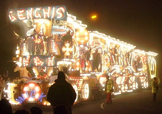 "Genghis Khan" by Wick CC, Burnham on Sea Carnival 2006